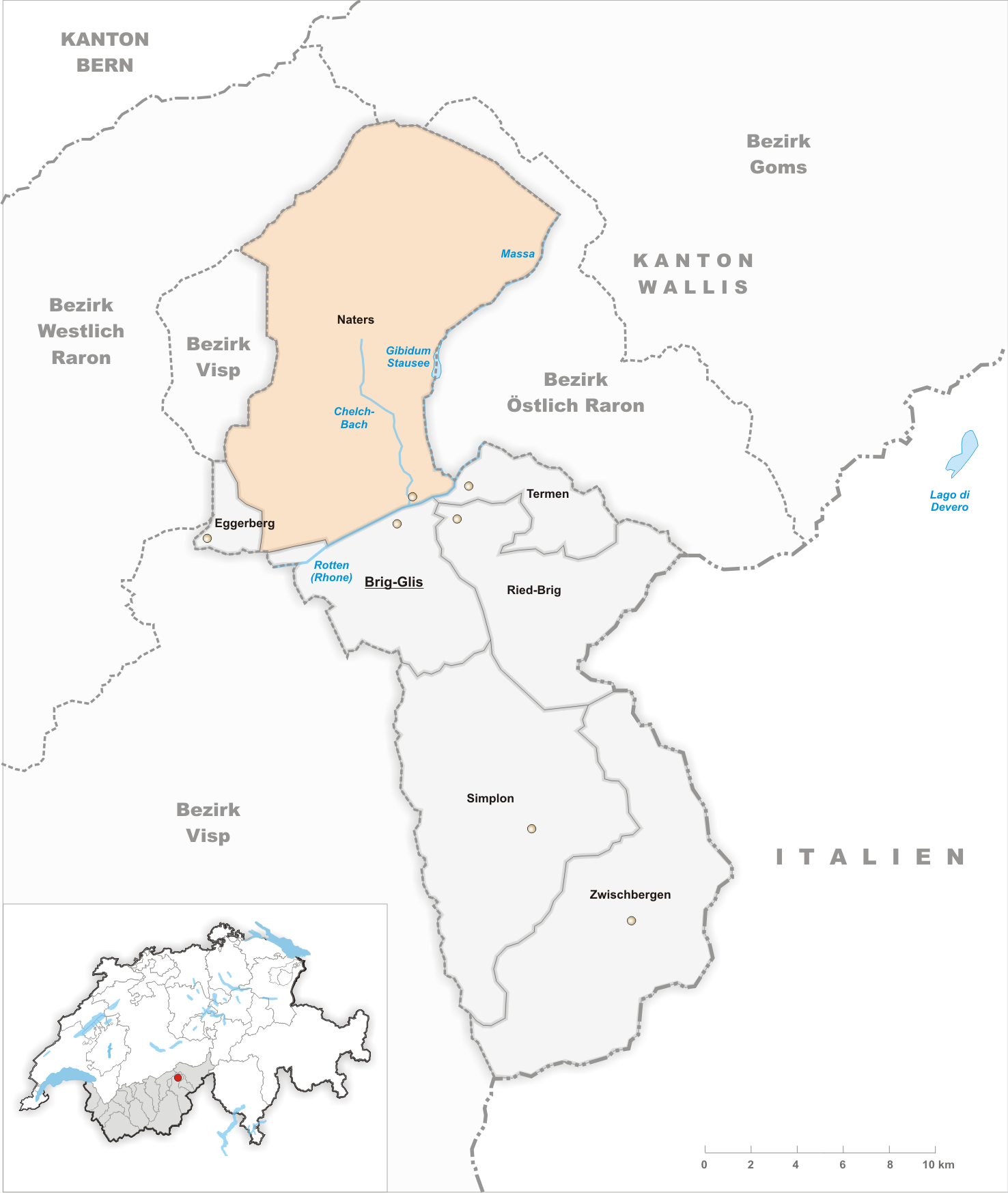 Municipality Naters